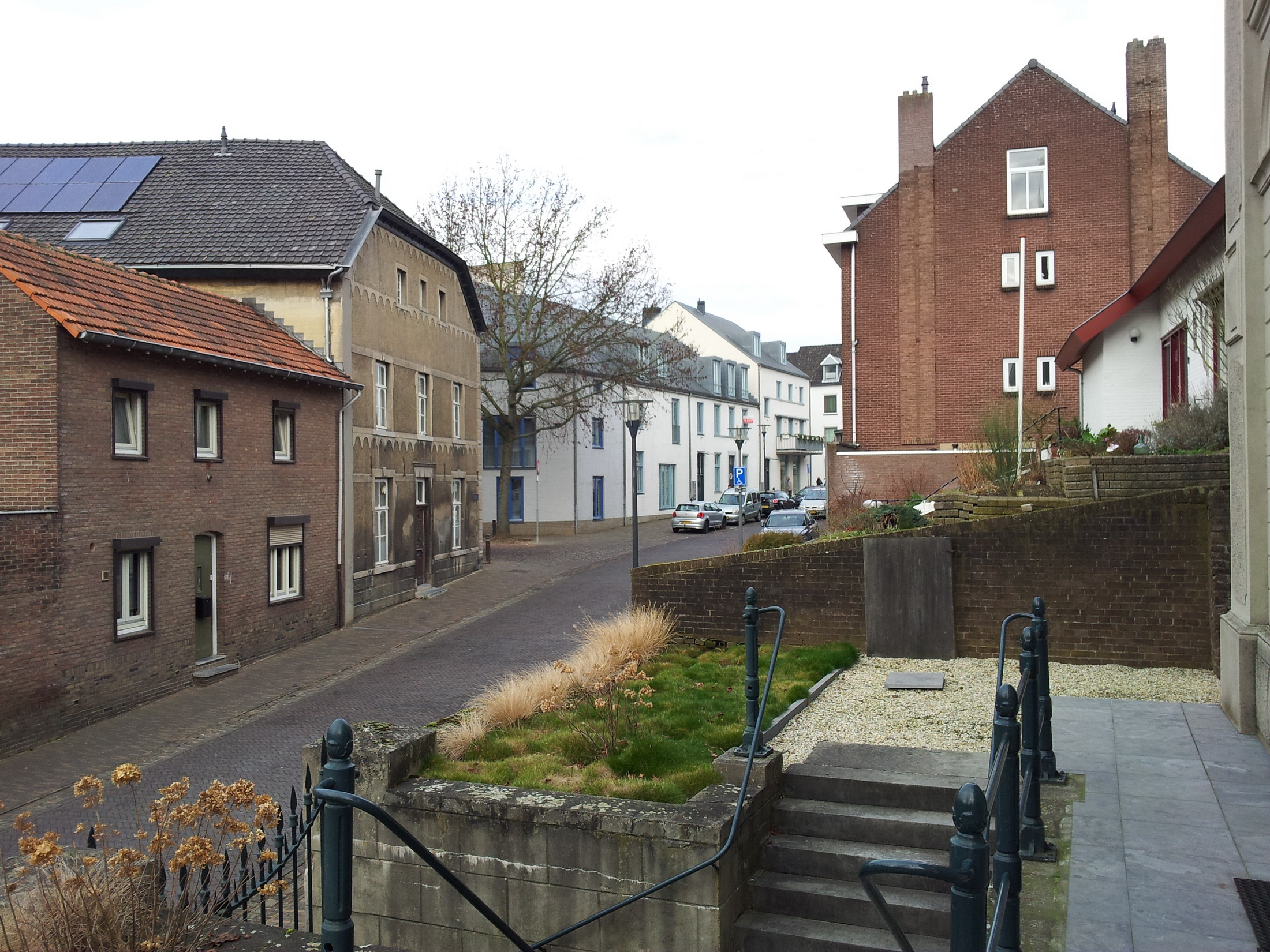 Meerssen, Limburg, the Netherlands. View of a street in the village center.